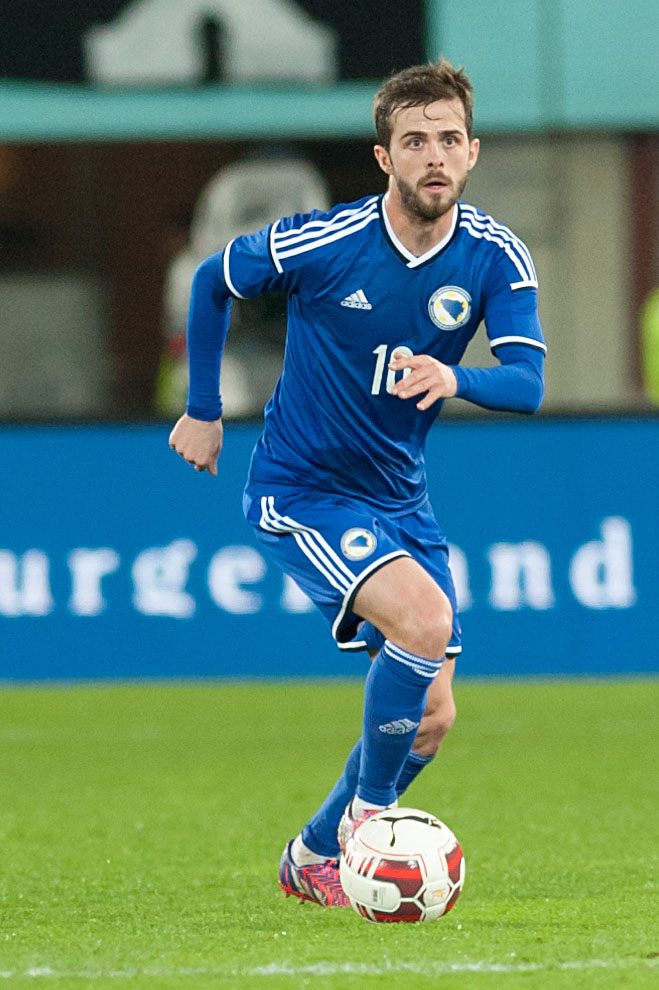 International friendly Austria vs. Bosnia and Herzegovina, 2015-03-31, Vienna: Miralem Pjanić.